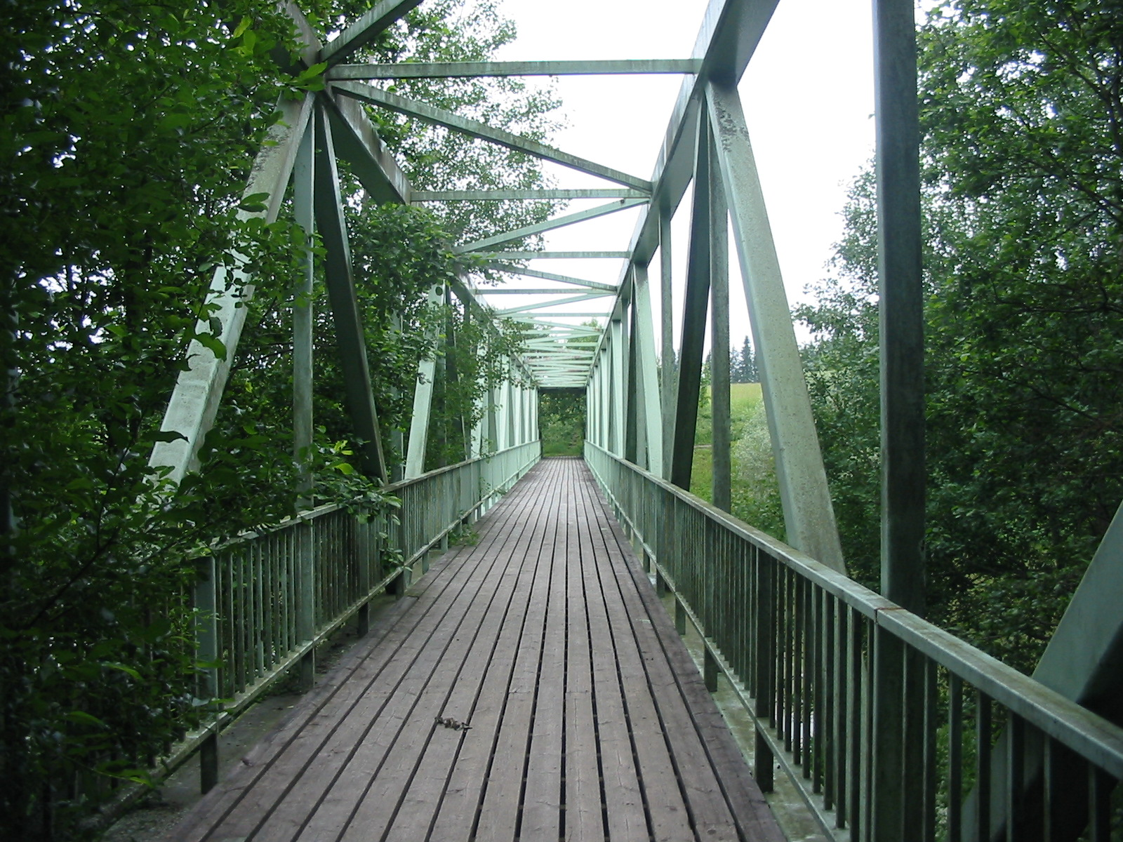 Myllyojan silta bridge in Turku, Finland